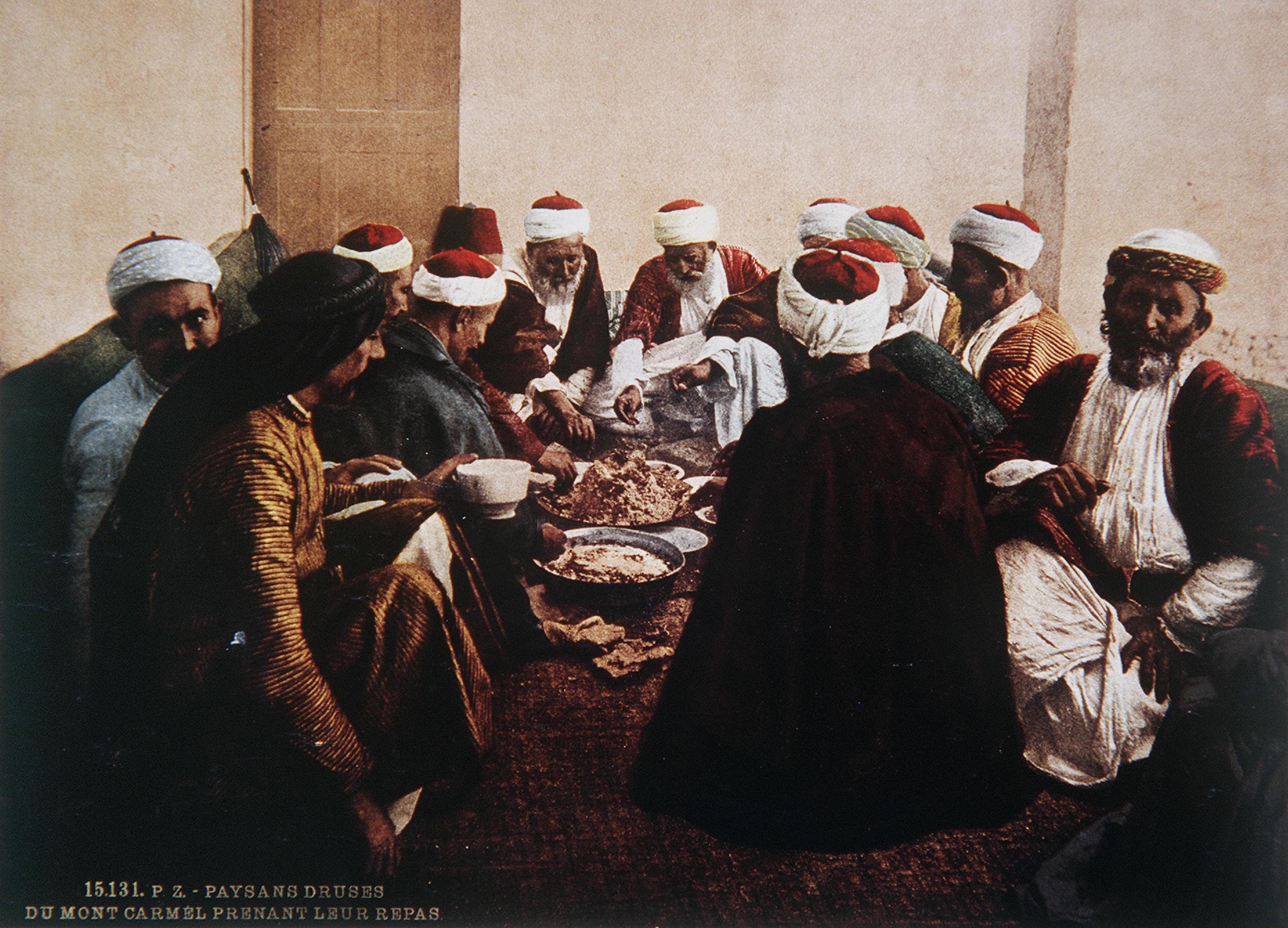 DRUSE RESIDENTS OF THE CARMEL FEAST ON A MEAL OF TRADITIONAL FOODS. COLOR PHOTO TAKEN IN THE LATE 19TH CENTURY BY FRENCH PHOTOGRAPHER, BONFILS. צילום צבע מסוף המאה ה19 של הצלם הצרפתי בונפיס אשר תעד ממראות ארץ ישראל ותושביה. בצילום, דרוזים תושבי הכרמל סועדים במאכלים טיפוסיים.